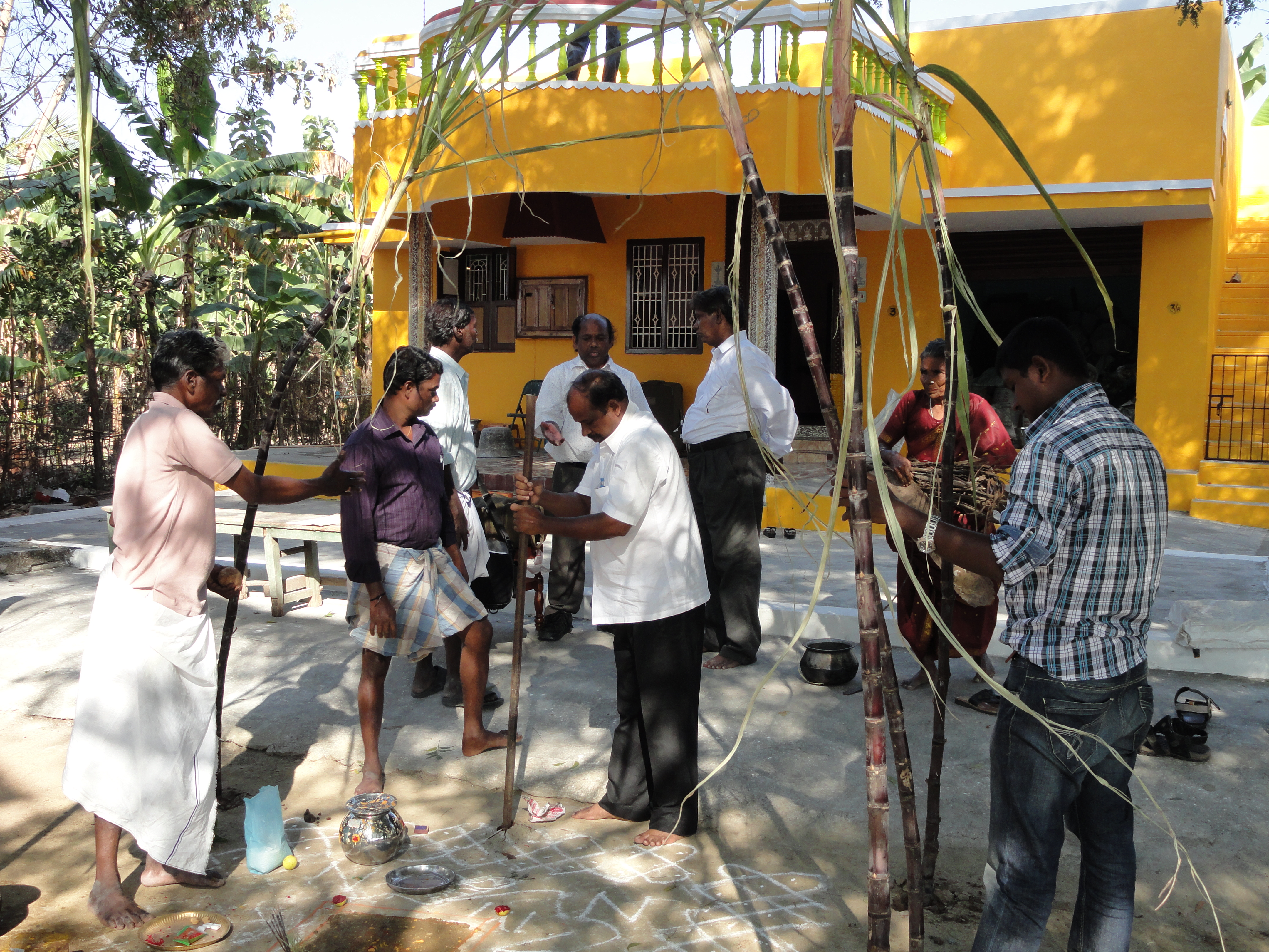 Pongal Celebration